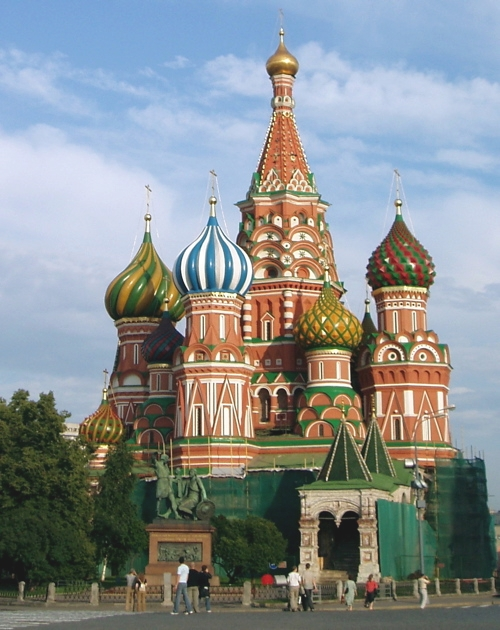 Saint Basil's Cathedral in Moscow, Russia